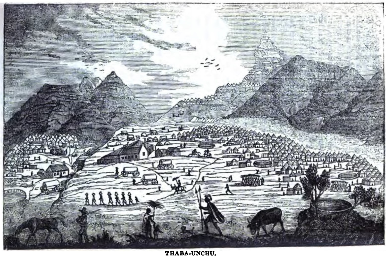 Thaba-Unchu (January 1852, p.10, IX)